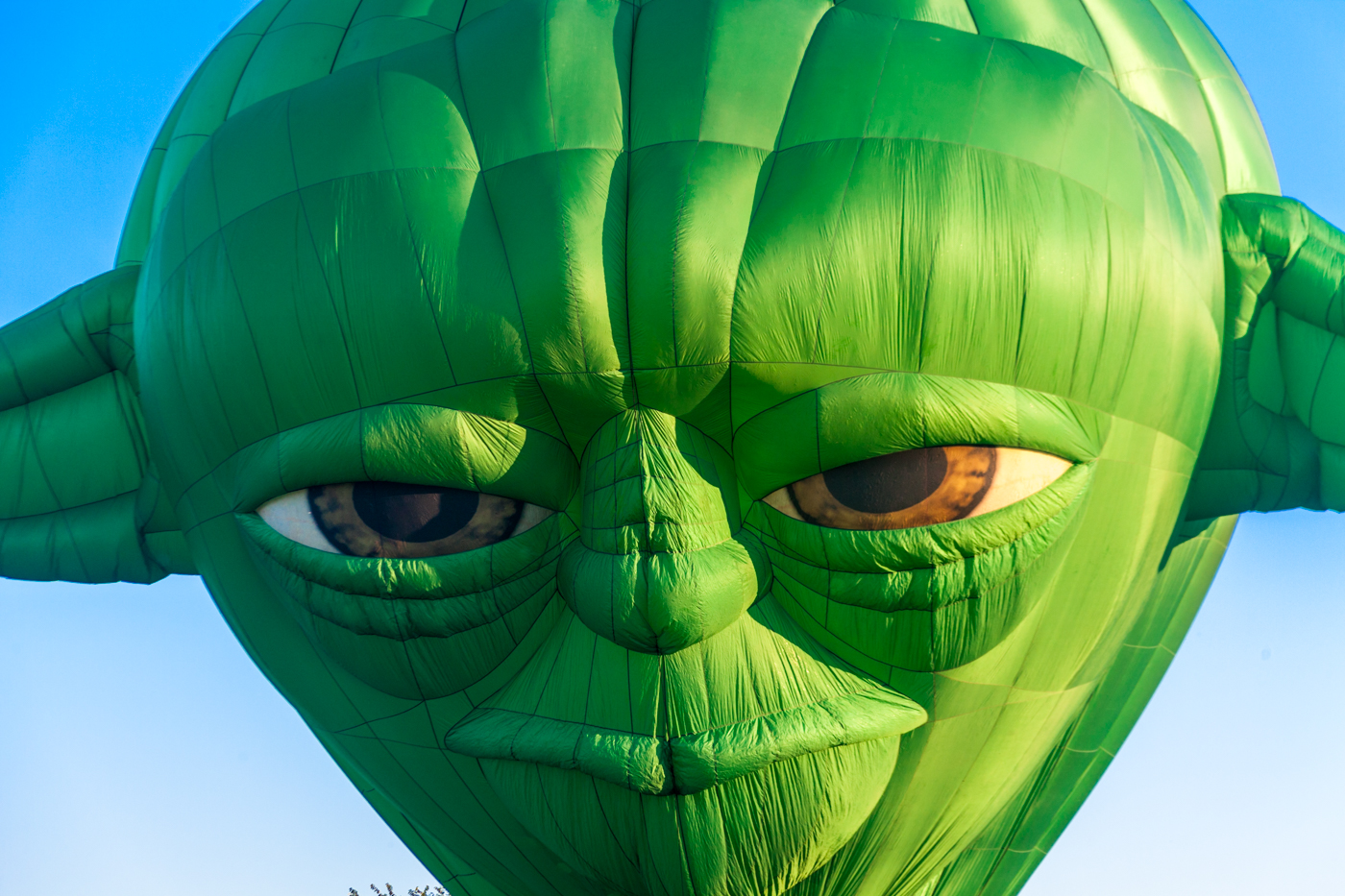 One of two special shaped balloons featured at the Great Falls Balloon Festival this opening morning. This is an annual event promoted by Auburn and Lewiston, Maine. The other special shape is that of Darth Vader. Not so easy to photograph as Yoda.